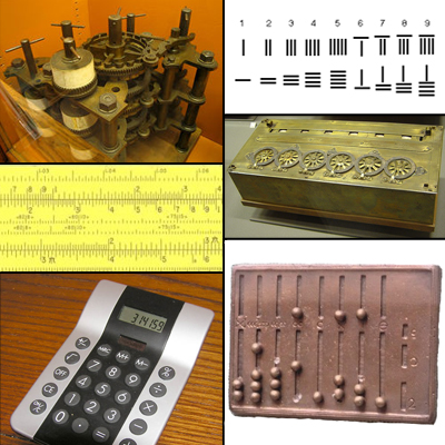 A collage of several images from Commons. See their licenses (I will add them soon).